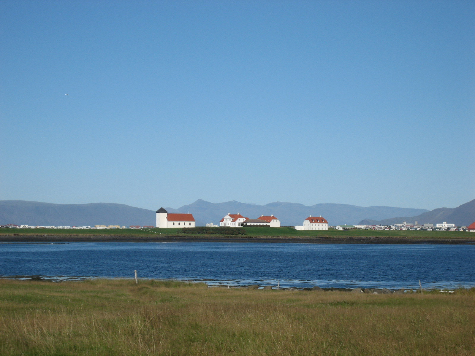 Bessastaðir Álftanesi Photo by Guðlaug Helga Konráðsdótir Oct 2006